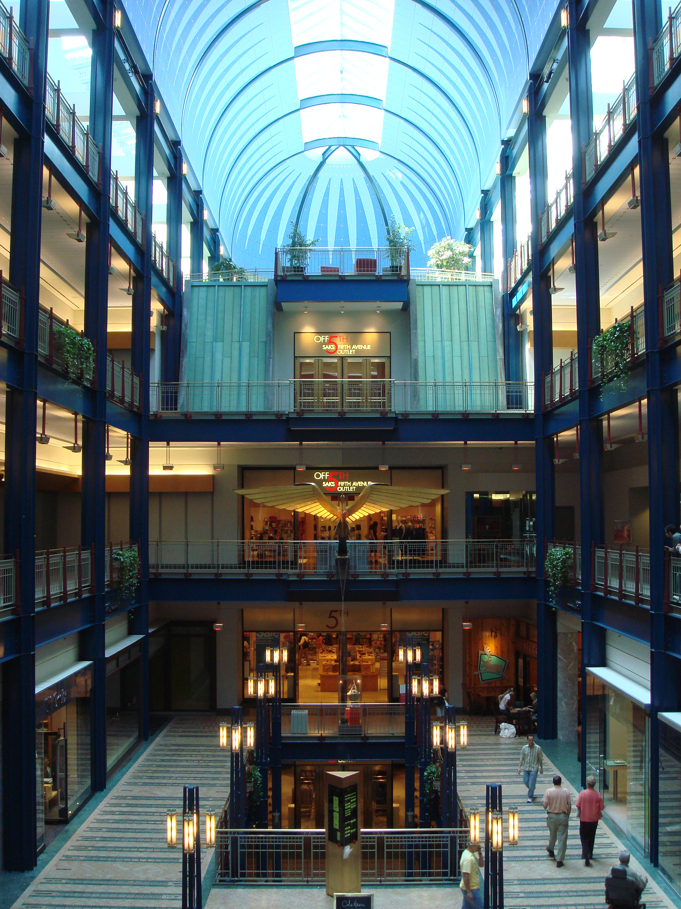 Gaviidae Common, Minneapolis, Minnesota